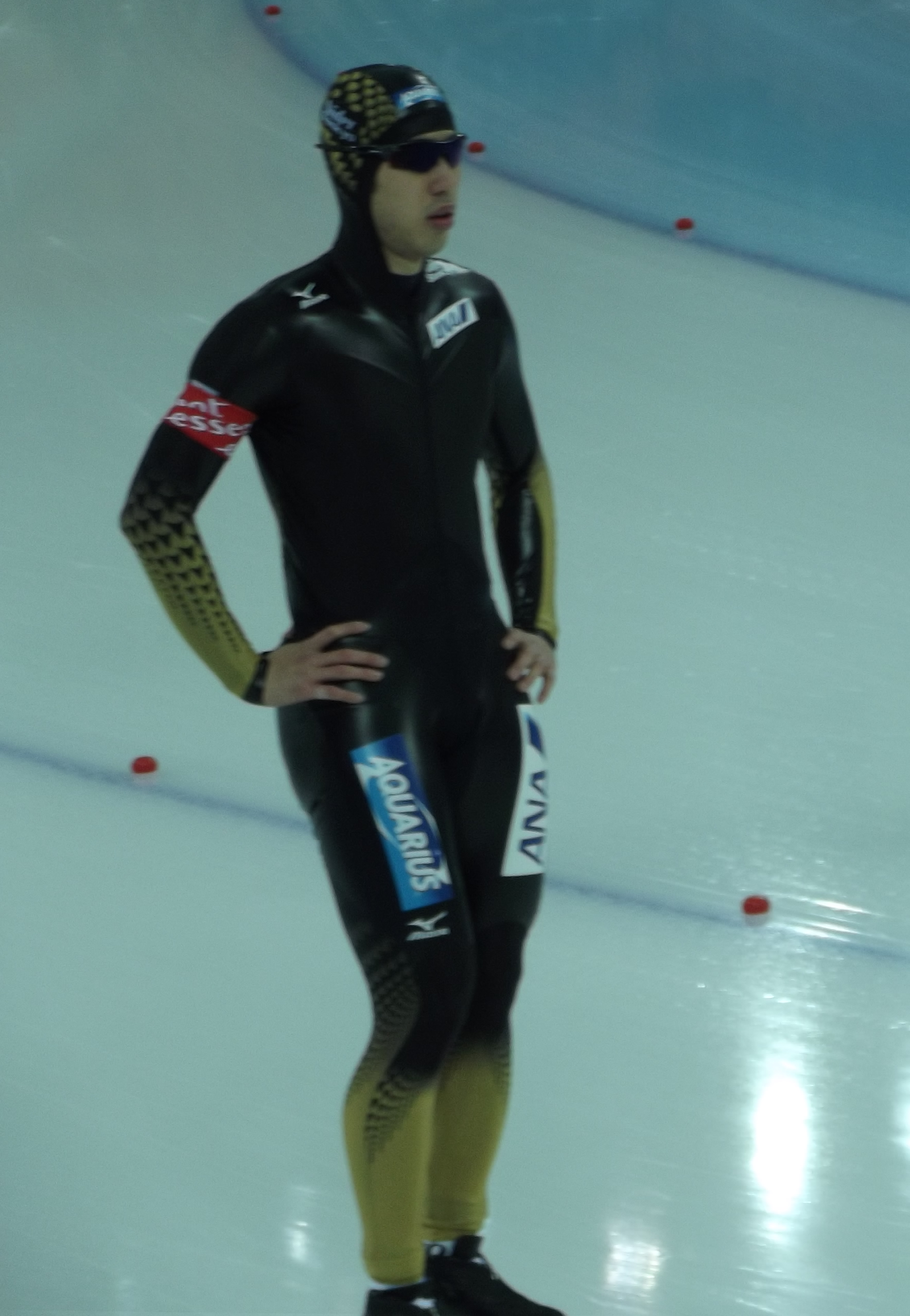 2013 World Single Distance Speed Skating Championships